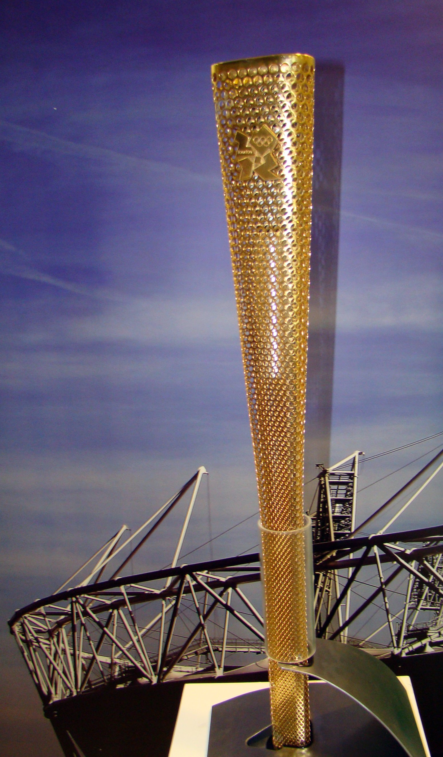 2012 Olympic Torch, dubbed 'The Golden Cheese-grater,' St William House, Cardiff, Wales